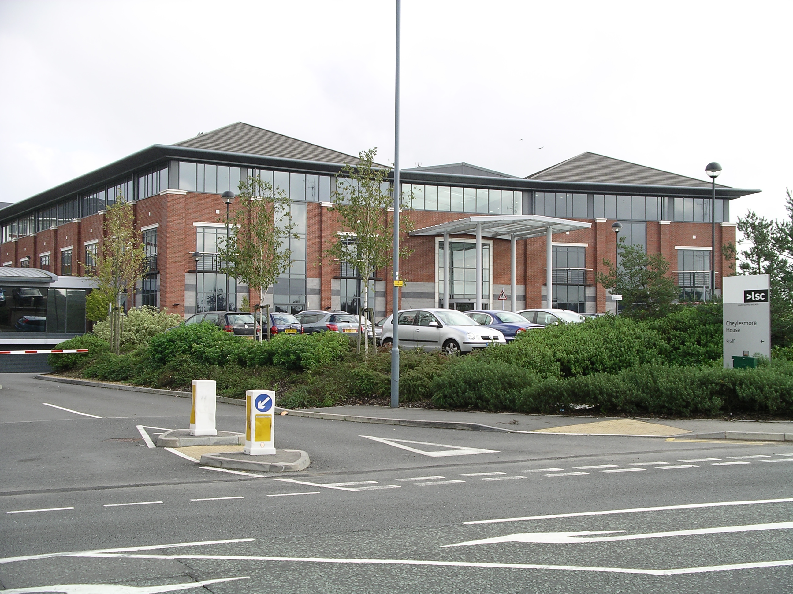 Photo taken by me on 13 October 2006 of Cheylesmore House in Coventry, England.